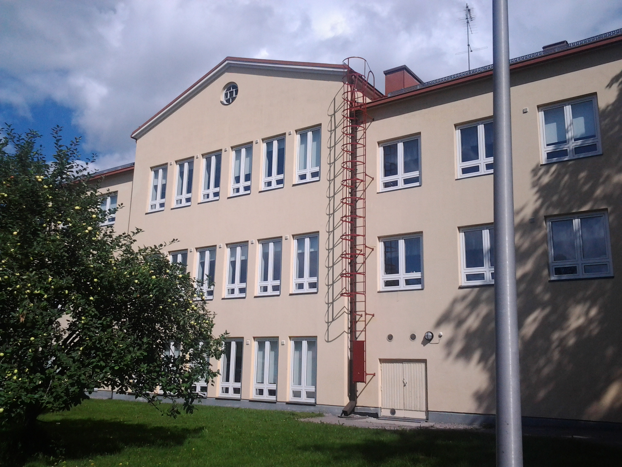 Hälvälä school in Hollola, Finland